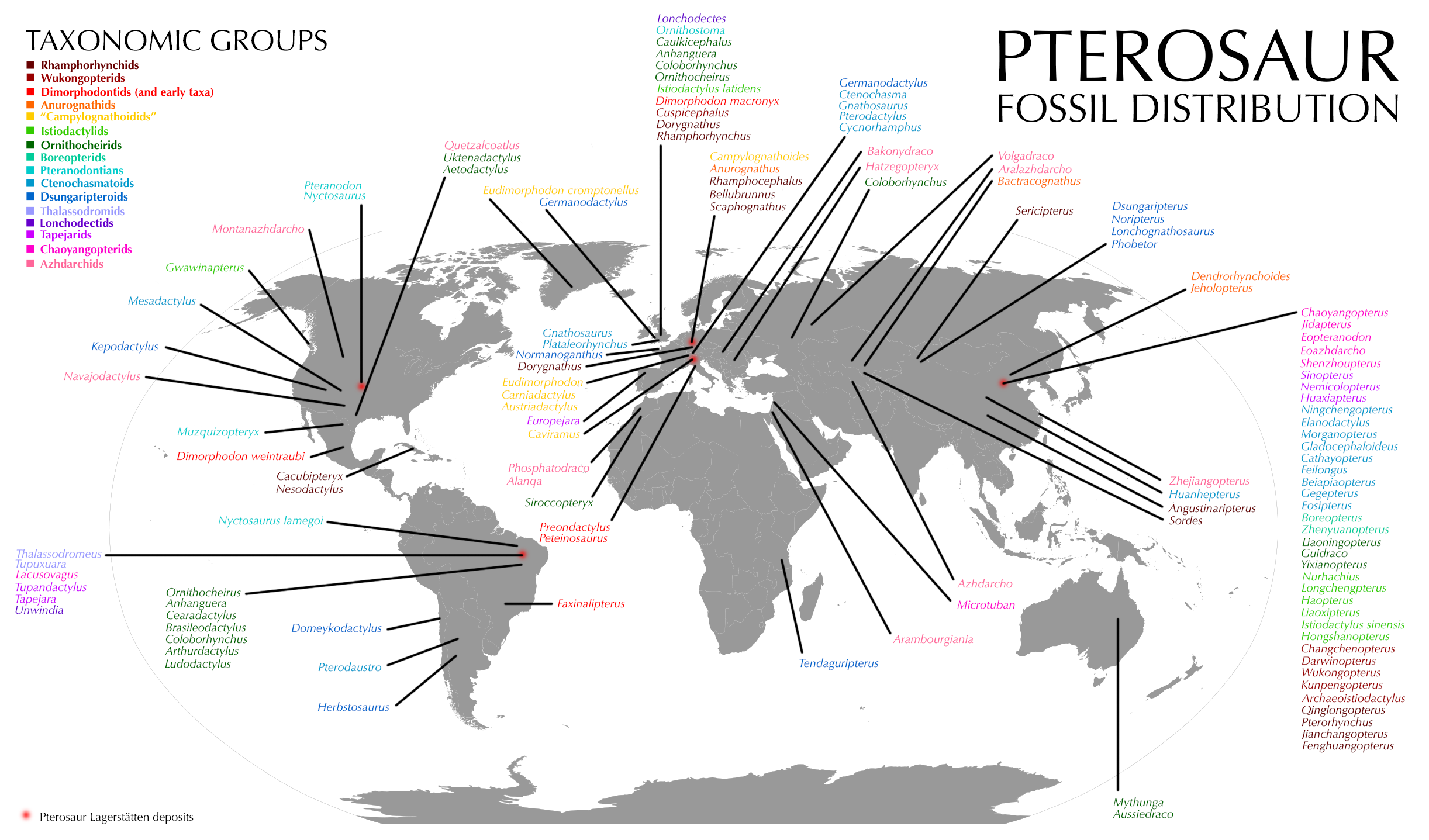 Distribution of pterosaur fossil locations. Colored species or genera names correspond to their taxonomic group. Adapted from Witton (2013).[1] Taxonomic groups based on Unwin et al. (2010).[2]